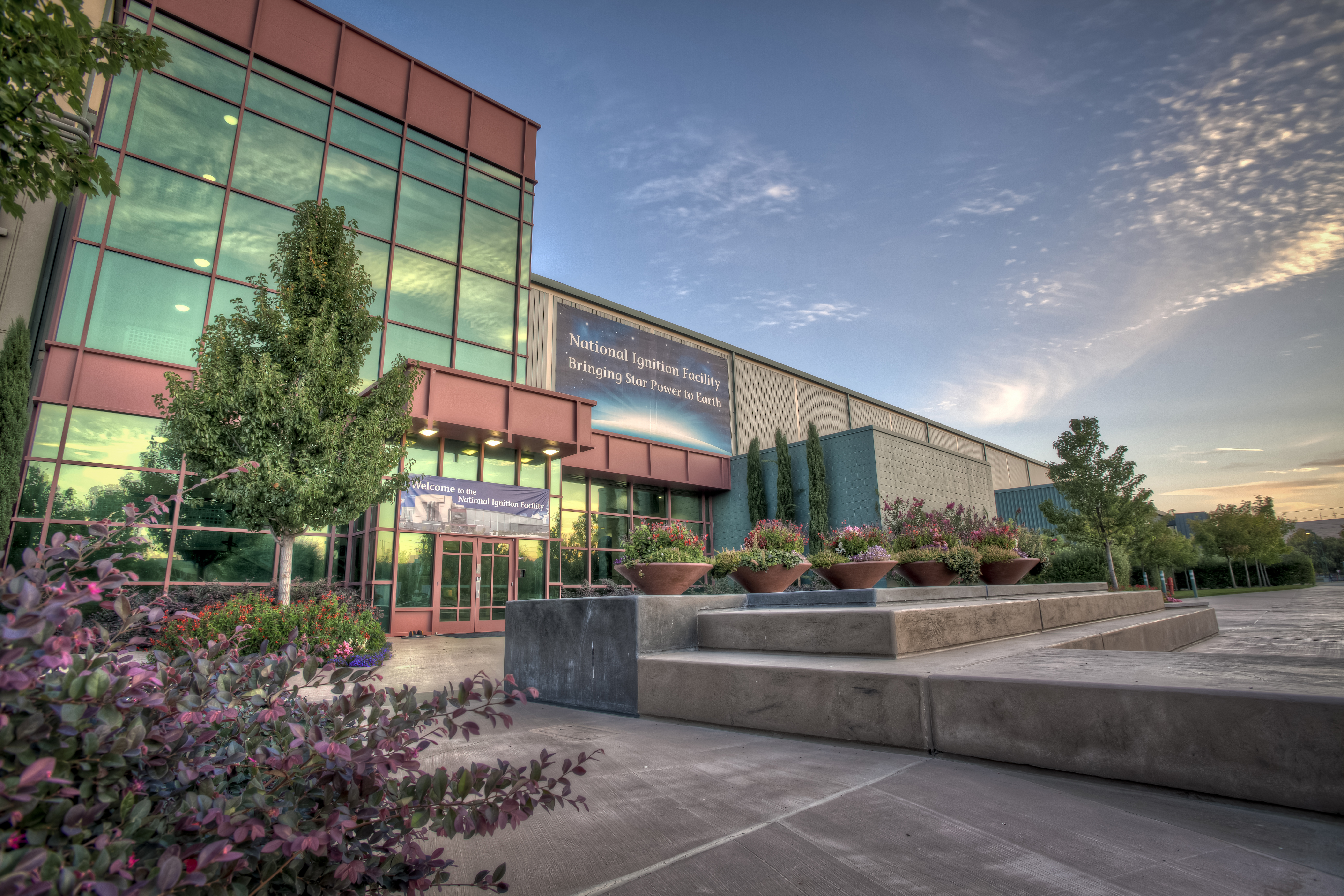 The exterior of the National Ignition Facility, a ten-story building the size of three football fields, is pictured at sunset. NIF is the world's largest and highest-energy laser system and the nation's largest scientific project. It is located at Lawrence Livermore National Laboratory in northern California.